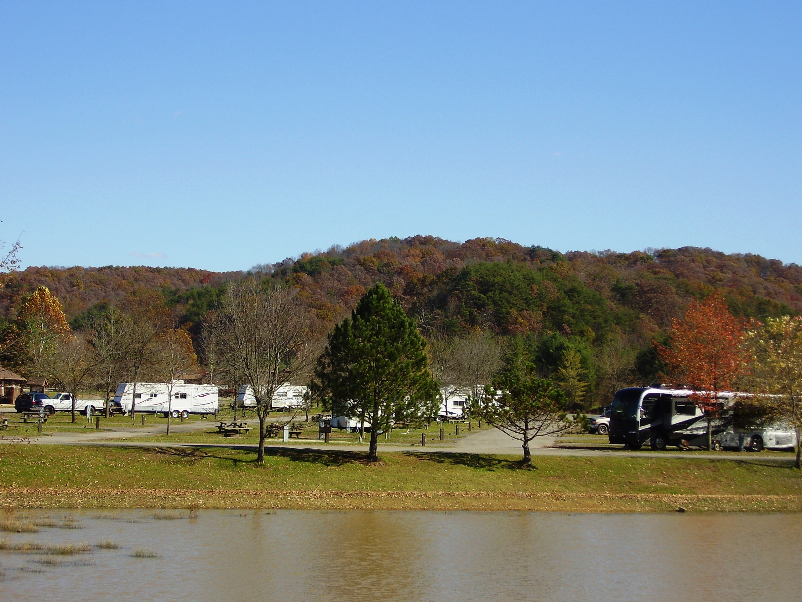 Photo of the campground at Beech Fork State Park in Wayne County, West Virginia, taken from a small automobile bridge looking eastward.